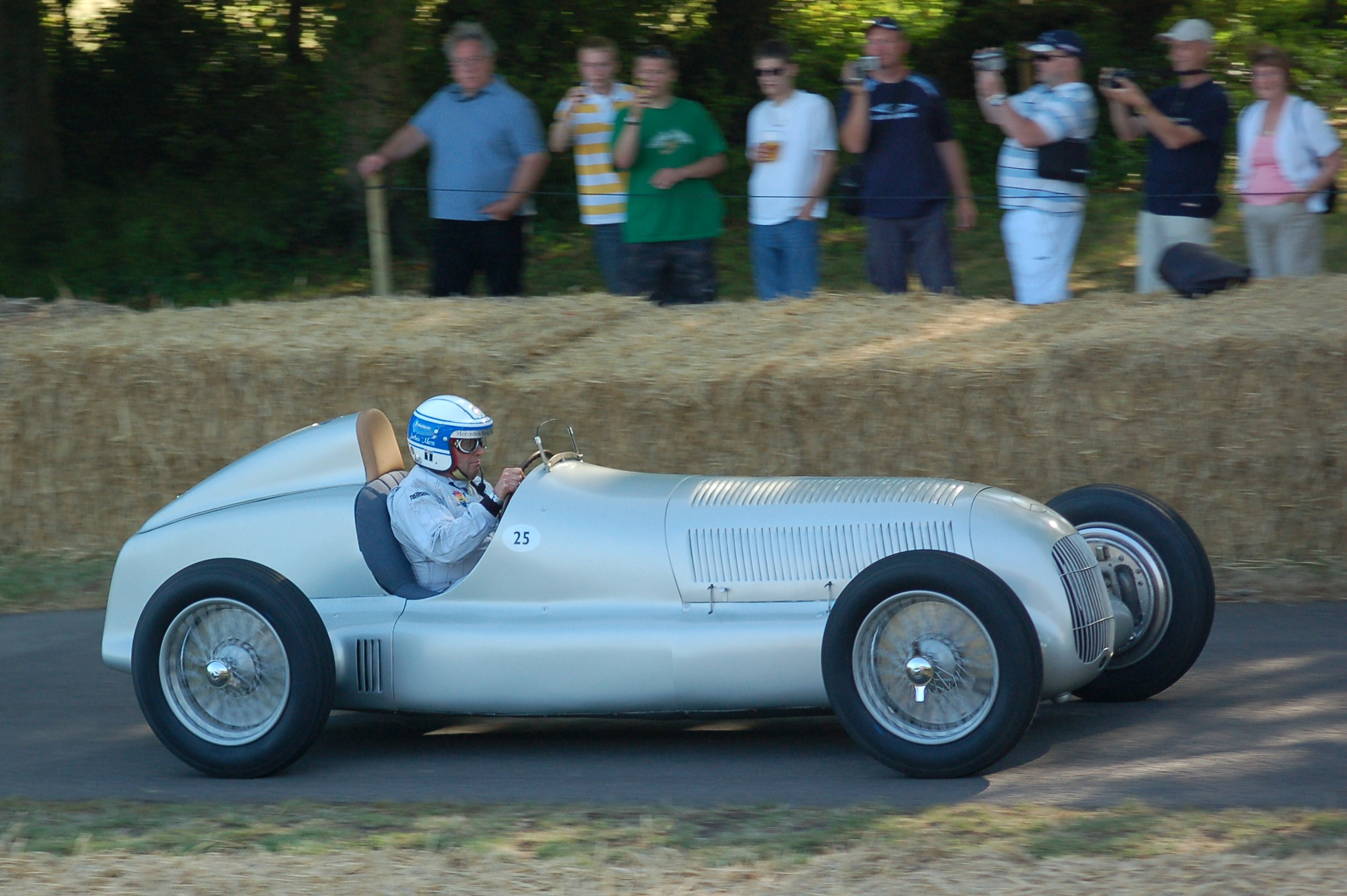 Jochen Mass demonstrating a 1934 Mercedes-Benz W25 at the Goodwood Festival of Speed.